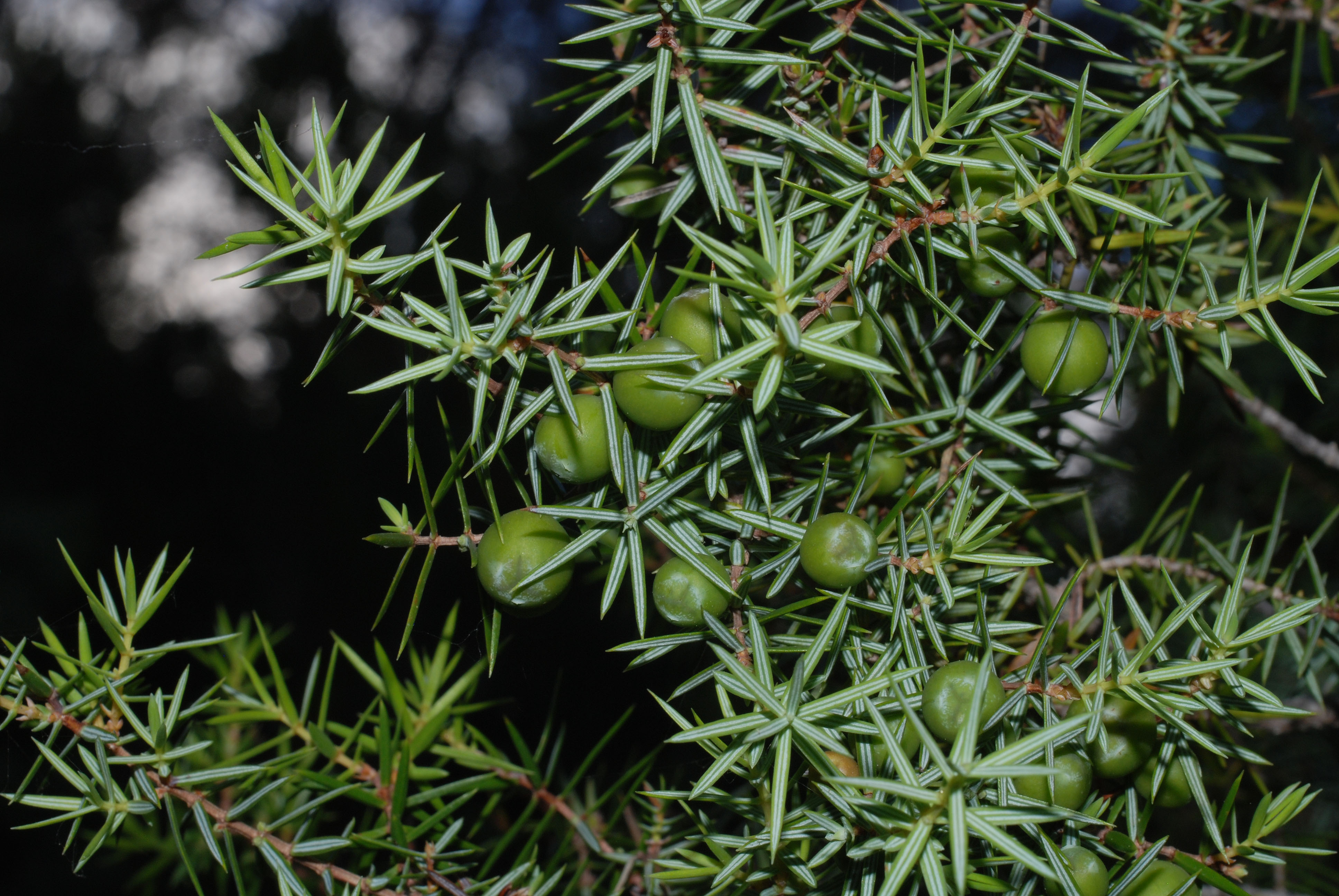 Juniperus oxycedrus, Sa Talaia ~100m, Ibiza